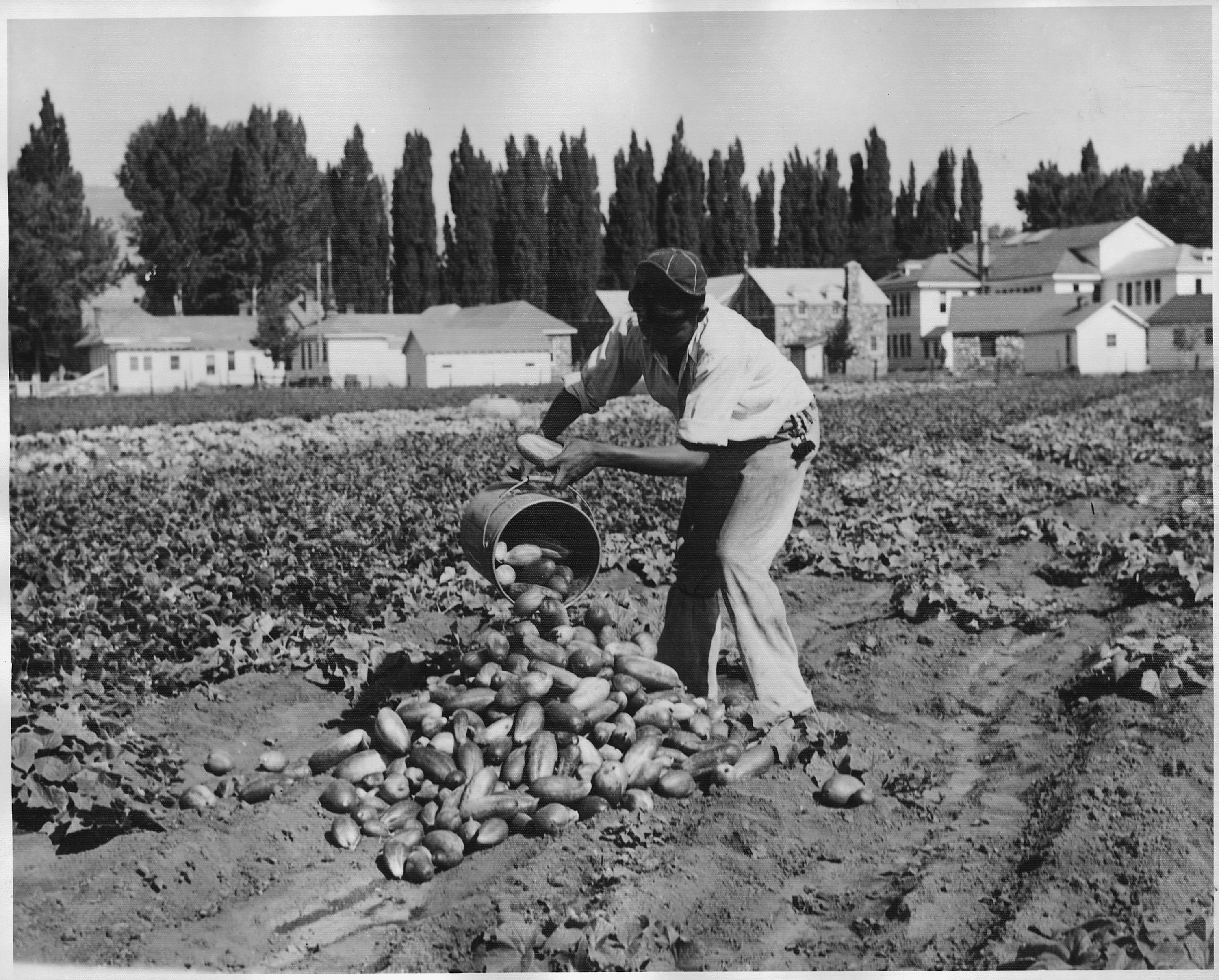 Scope and content: Records document the activites of George LaVatta as Organizational Field Agent in the 1930's. Included are records and photos conerning construction at various agencies, the reorganization of the Bureau of Indian Affairs, and photos and reports of various Indian schools.